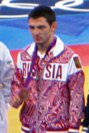 Medalists at the Men's 60 kg Greco Roman Wrestling, just after the medal ceremony. Left to right: Revaz Lashkhi (silver), Omid Norouzi (gold), Zaur Kuramagomedov (bronze) and Ryutaro Matsumoto (bronze).